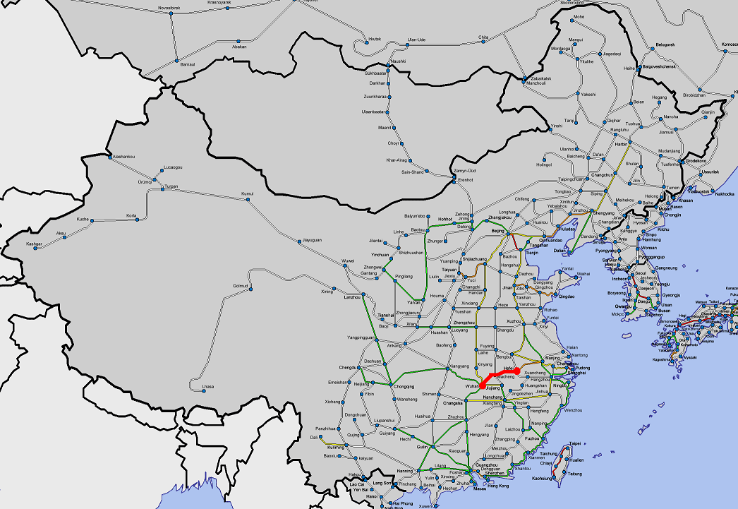 HeWu high speed railway line in China (2009)